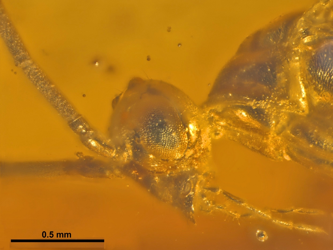 Closeup view of the Baikuris mandibularis holotype head. Specimen PIN3730-5. Taimyr amber, Santonian; Taimyr Peninsula, Siberia, Russia